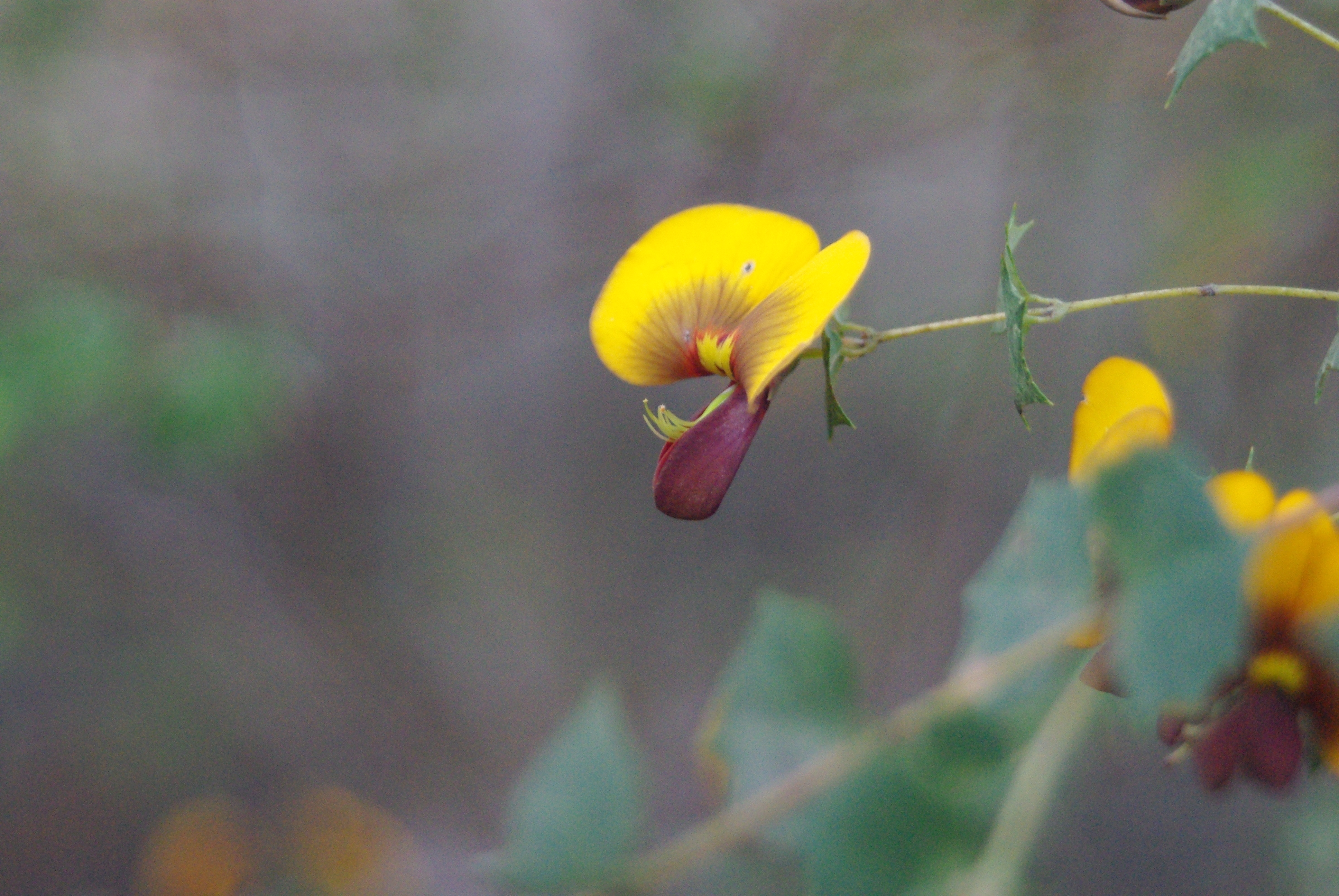 Bossiaea aquifolium Darling Range August 2010